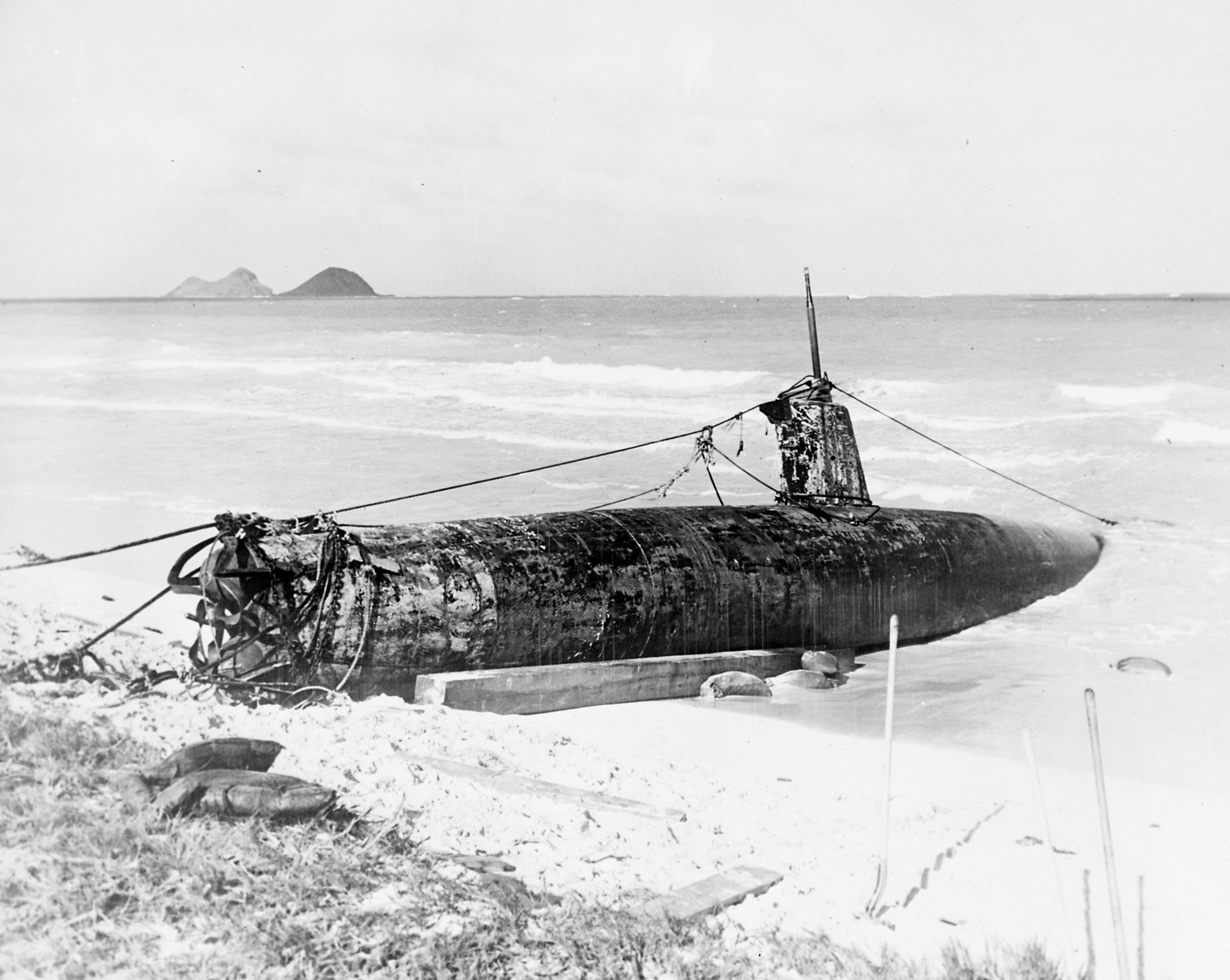 The Japanese "Type A" midget submarine HA-19 partially hauled up on and eastern Oahu beach, during salvage by U.S. forces. It had grounded on 7 December 1941, following attempts to enter Pearl Harbor during the Japanese attack, and was discovered the following day.